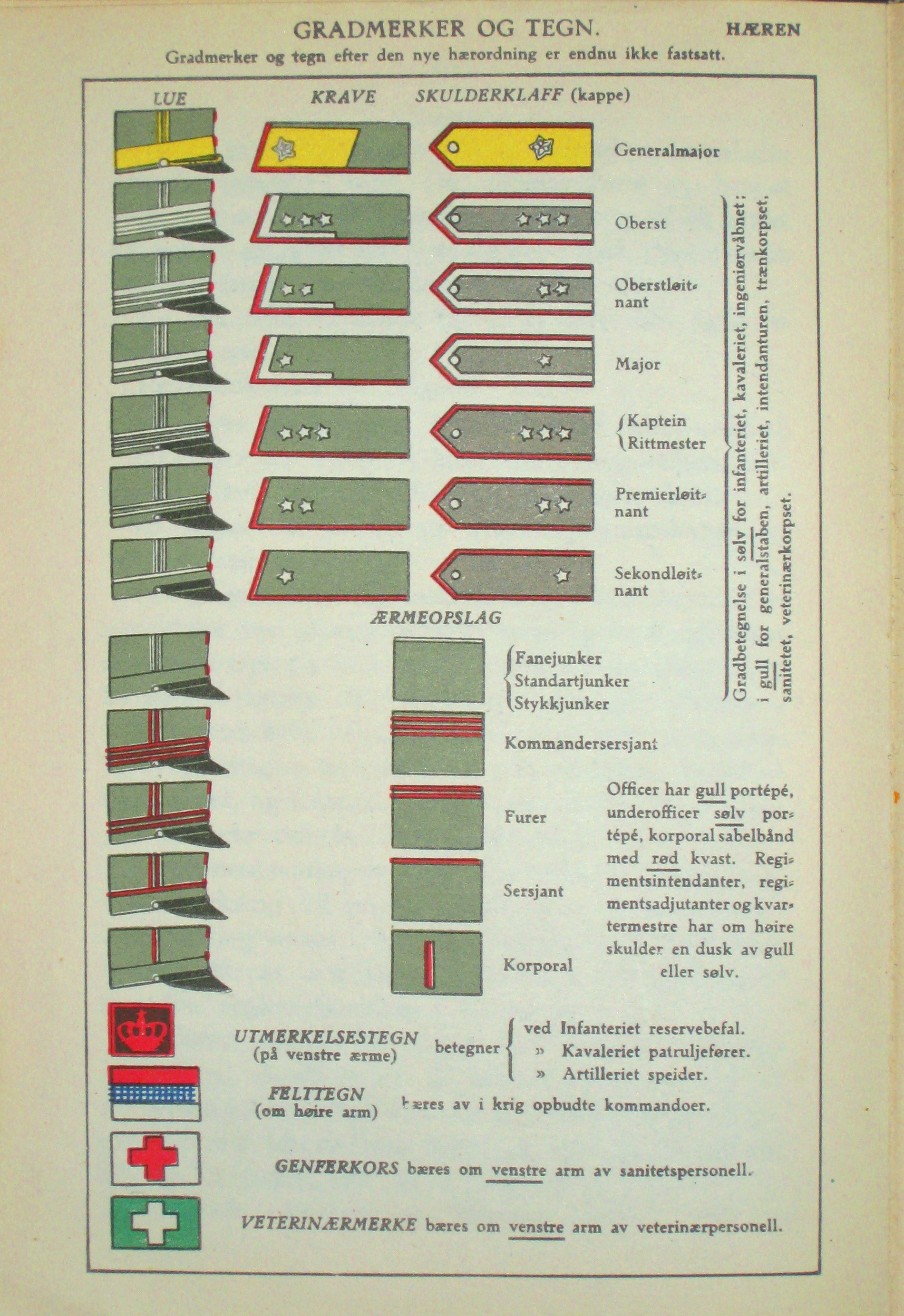 Rank insignia of the Norwegian Army in 1928.